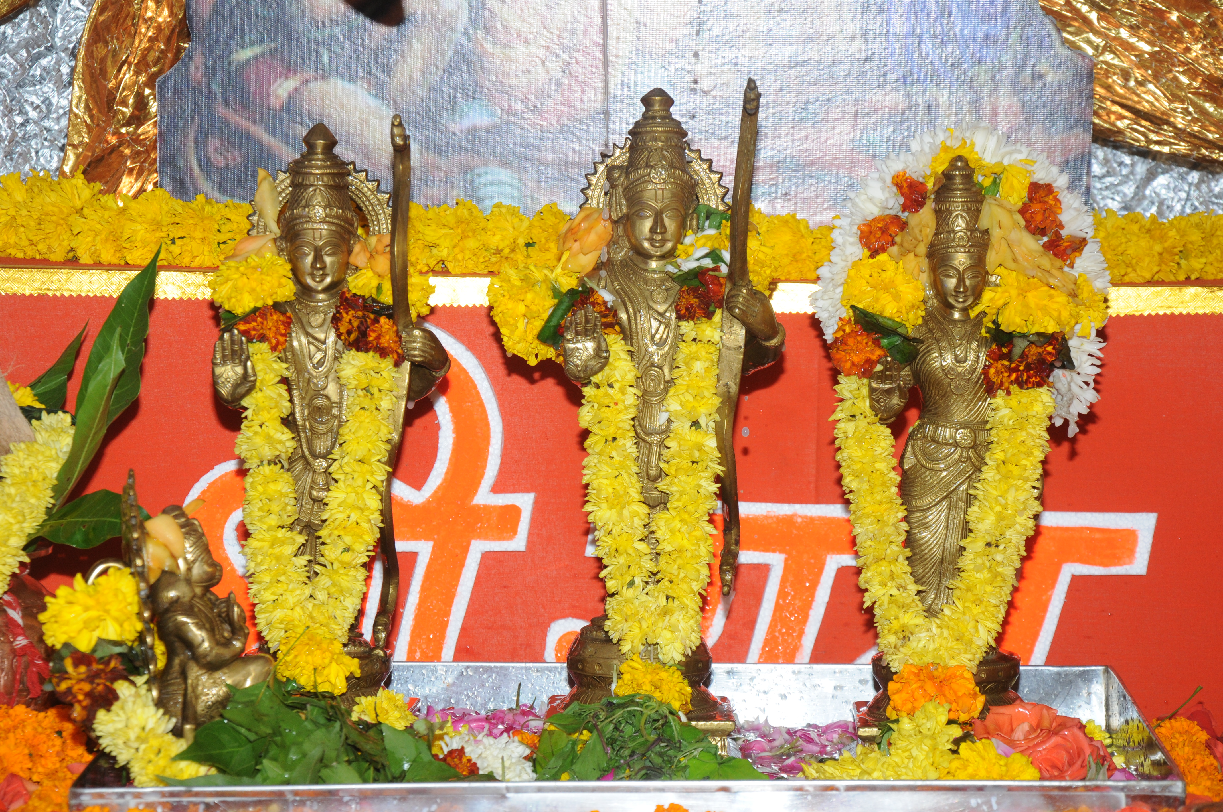 Idol of Lord Rama, Lakshman and Sita during Shree Aniruddha Pournima (Shree Tripurari Purnima) Utsav